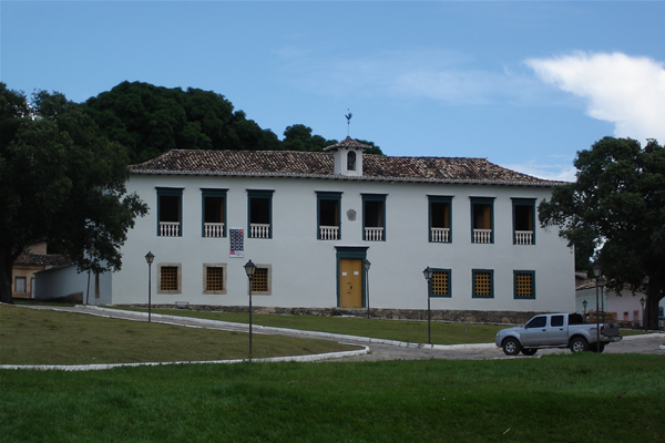 Museu das Bandeiras in Goiás (municipality)